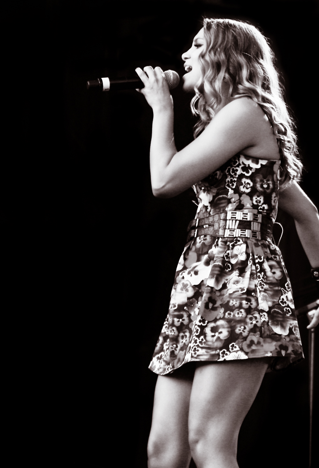 Agnes Carlsson at Rix Fm Festival, Kalmar, Sweden.